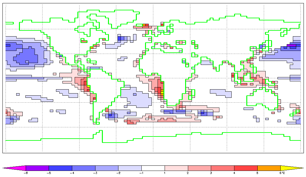 Sea surface temperature difference between HadCM3 and ERA-15; annual mean. ERA would not be reliable over sea ice, which has accordingly been masked out, as have the land areas. The SSTs are taken from the ERA dataset for convenience, but are input to ERA from standard sources (obs and satellites).